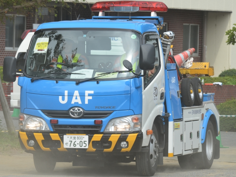 Toyota Toyoace